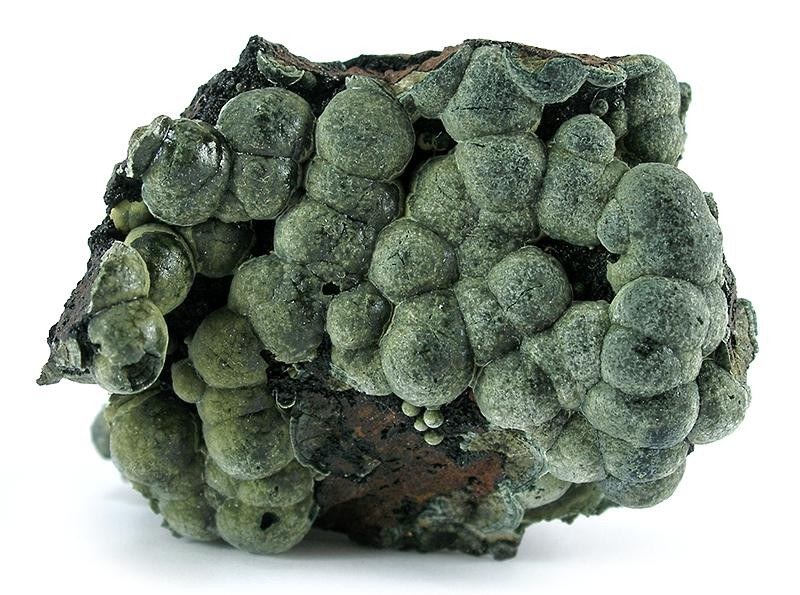 Kidwellite Locality: Three Oaks Gap workings (Arena 1 prospect), Three Oaks Gap, Polk County, Arkansas, USA (Locality at ) Size: 4.0 x 3.3 x 2.9 cm. An exceptional specimen of this rare phosphate species with rich botryoidal growths on a display-quality matrix. It is from the noted collection of Arkansasan Clyde Hardin.